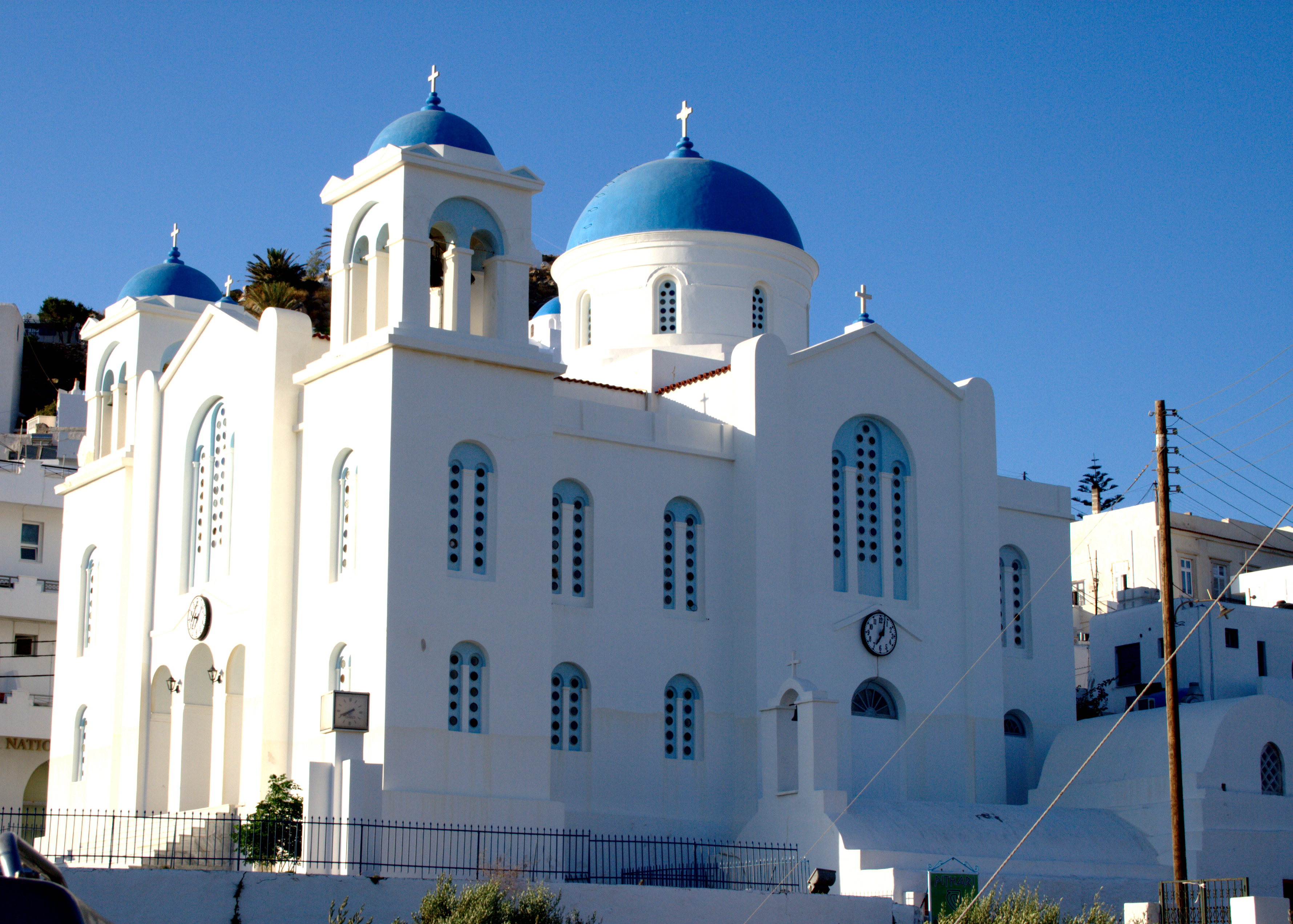 Chora of Ios.